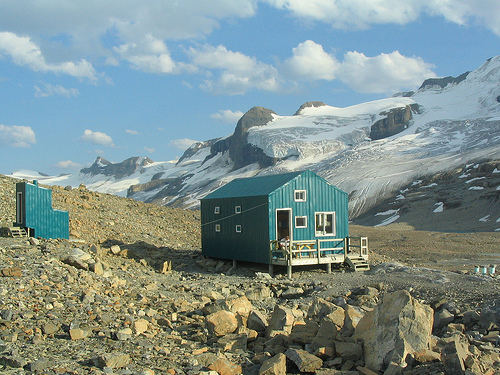 the Balfour Hut, also known as the R.J. Ritchie Hut, with Mount Balfour in the background